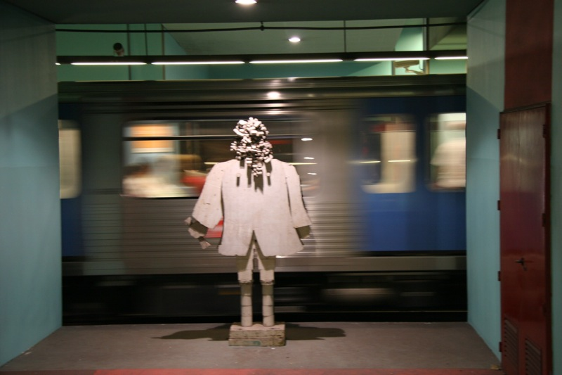 a train passing at Lisbon's underground station Marquês de Pombal, Lisbon, Portugal